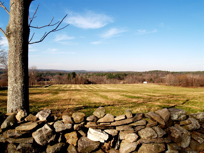 Rural scene, Berlin, Massachusetts, with Wachusett Mountain in the distance, November 2005.